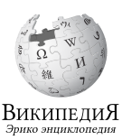 A logo for Wikipedia in the Udmurt language.